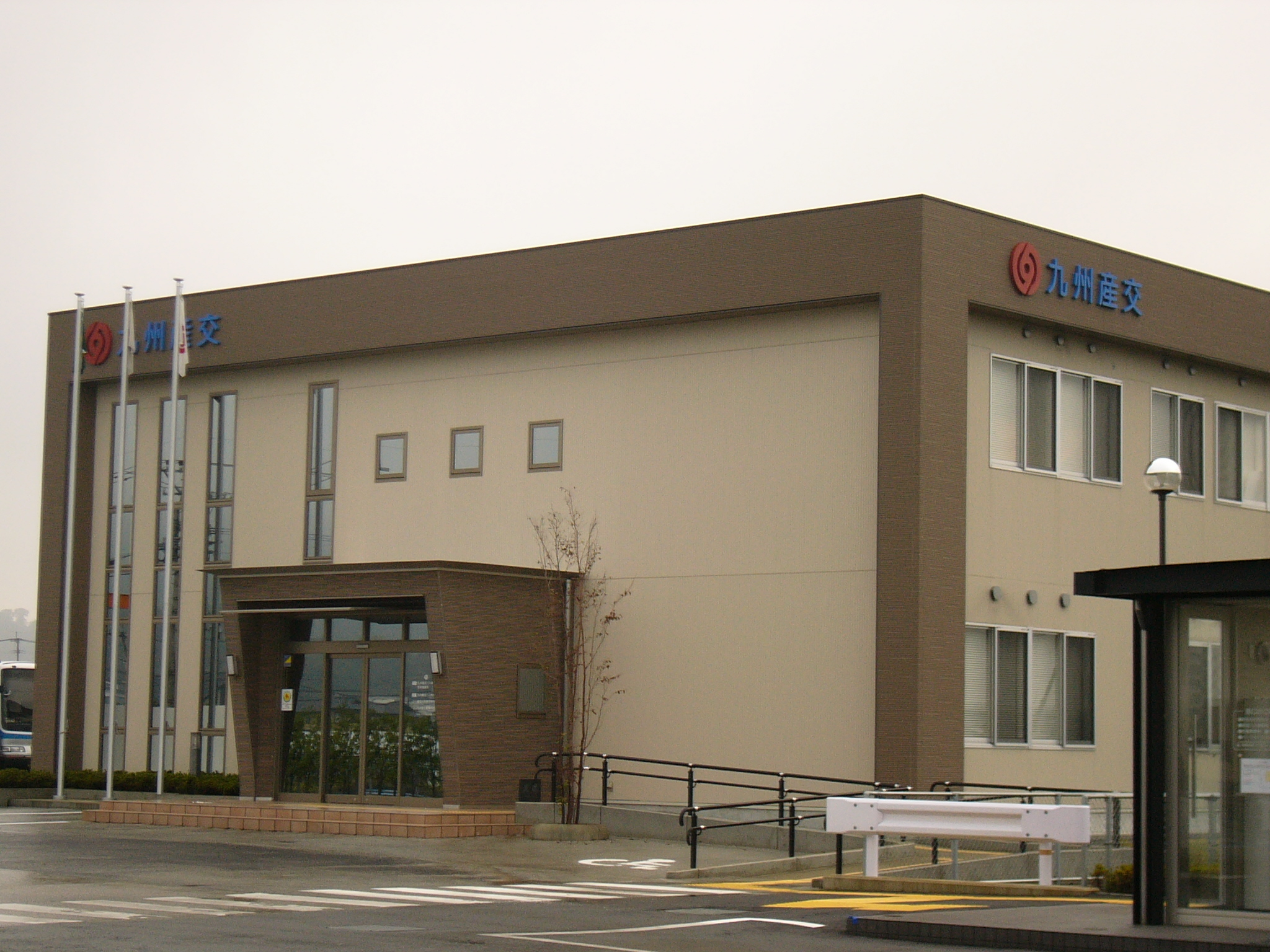 Kyusyusanko bus main office